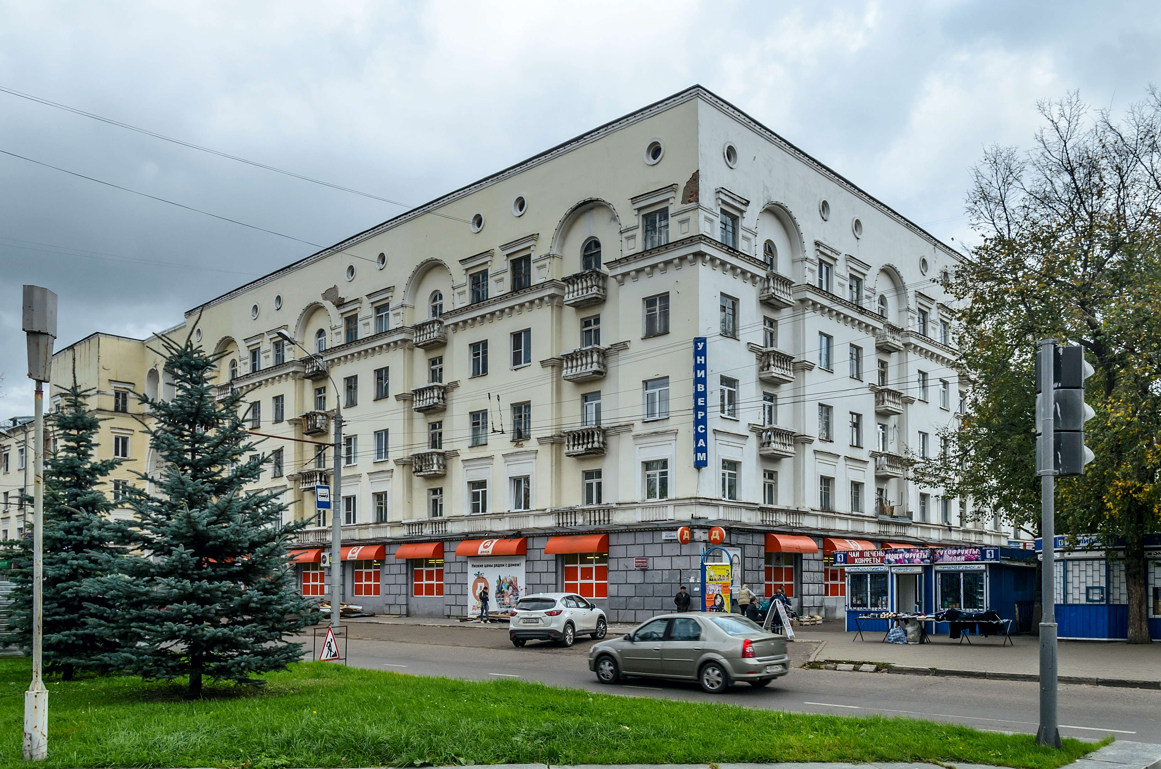 Lenina Avenue in Yaroslavl